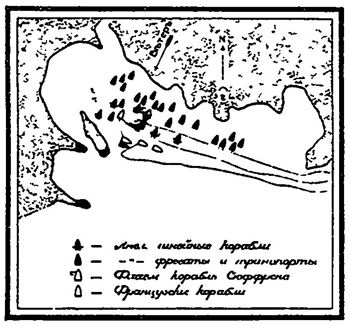 The Battle of Pondicherry was a naval battle between a British squadron under Vice-Admiral George Pocock and French squadron under Comte d'Aché off the Carnatic coast of India near Pondicherry during the Seven Years' War. The battle took place on 10 September 1759. The outcome was indecisive.